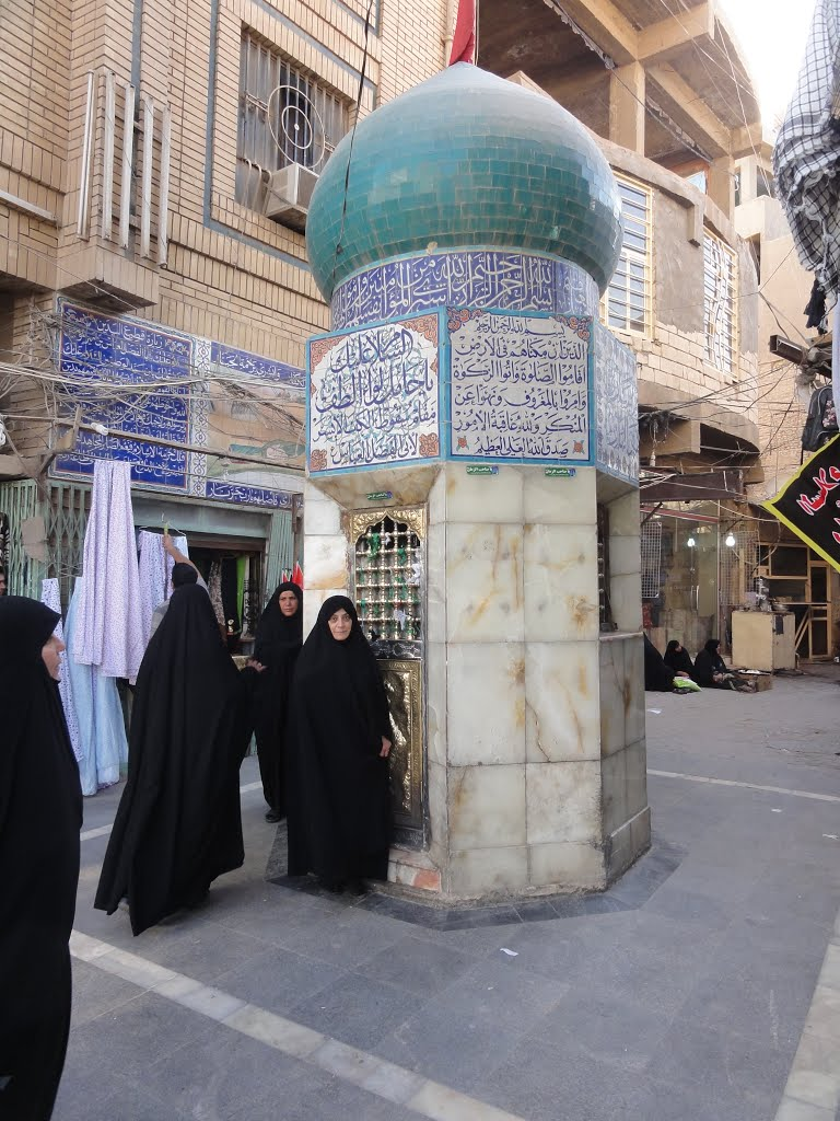 Kaff al-Abbas Shrine in Karbala City